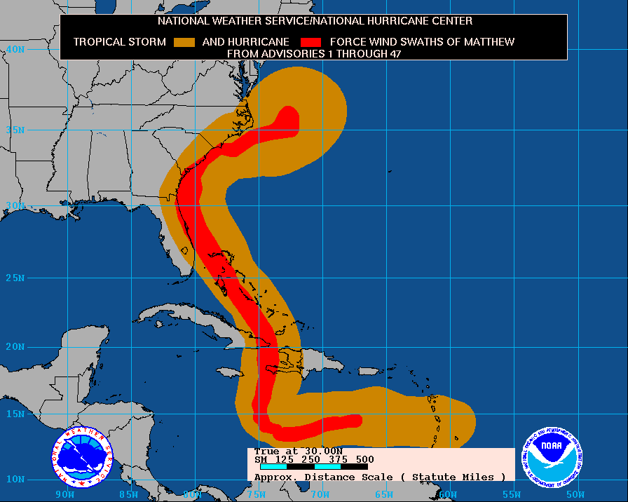 This graphic shows how the size of the storm has changed, and the areas potentially affected so far by sustained winds of tropical storm force (in orange) and hurricane force (in red). The display is based on the wind radii contained in the set of Forecast/Advisories indicated at the top of the figure. Users are reminded that the Forecast/Advisory wind radii represent the maximum possible extent of a given wind speed within particular quadrants around the tropical cyclone. As a result, not all locations falling within the orange or red swaths will have experienced sustained tropical storm or hurricane force winds, respectively.